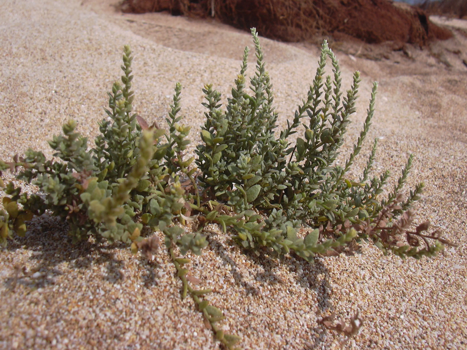 Cressa truxillensis (habit). Location: Kahoolawe, West beach